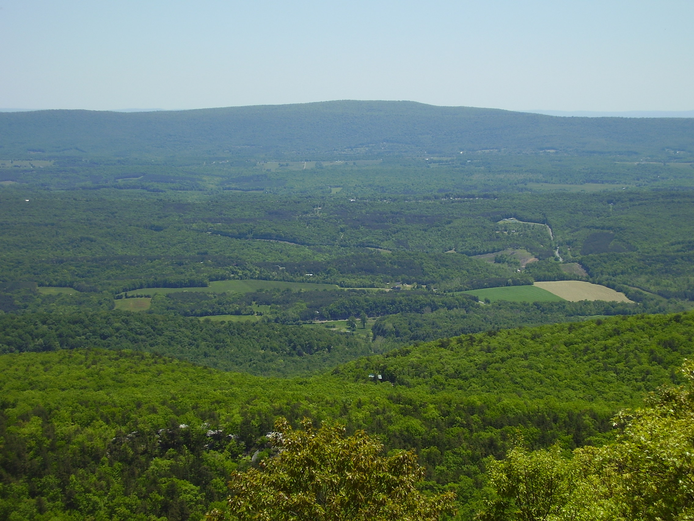 High Knob (2,172 ft.) the highpoint on Third Hill Mountain, viewed from Cacapon Mountain overlook. Photo by: Joe Calzarette date: May 25, 2008